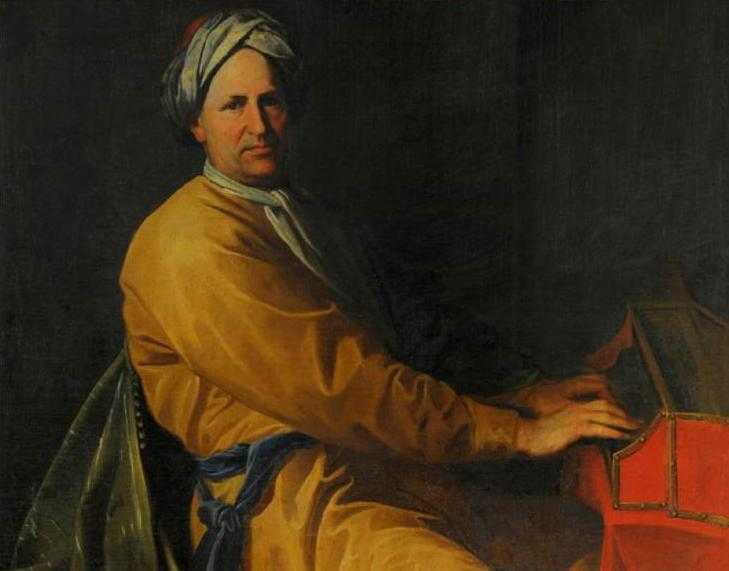 Portrait of the Italian composer Bernardo Pasquini seated at his harpsichord